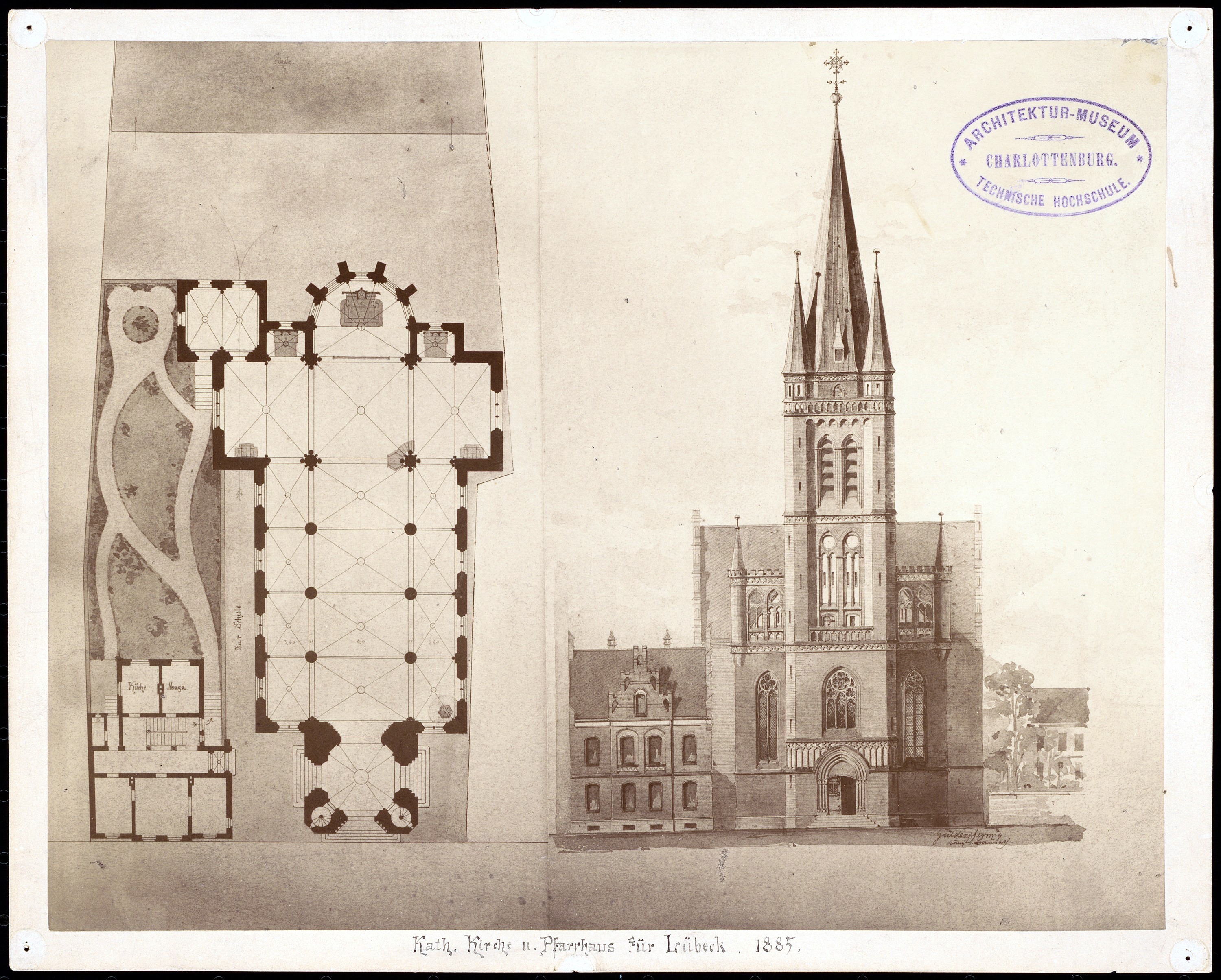 Güldenpfennig Arnold (1830-1908), Katholische Kirche und Pfarrhaus, Lübeck: Vorderansicht, Grundriss und Situation. Foto auf Papier, 22 x 27,4 cm (inkl. Scanrand). Architekturmuseum der Technischen Universität Berlin Inv. Nr. 1634.